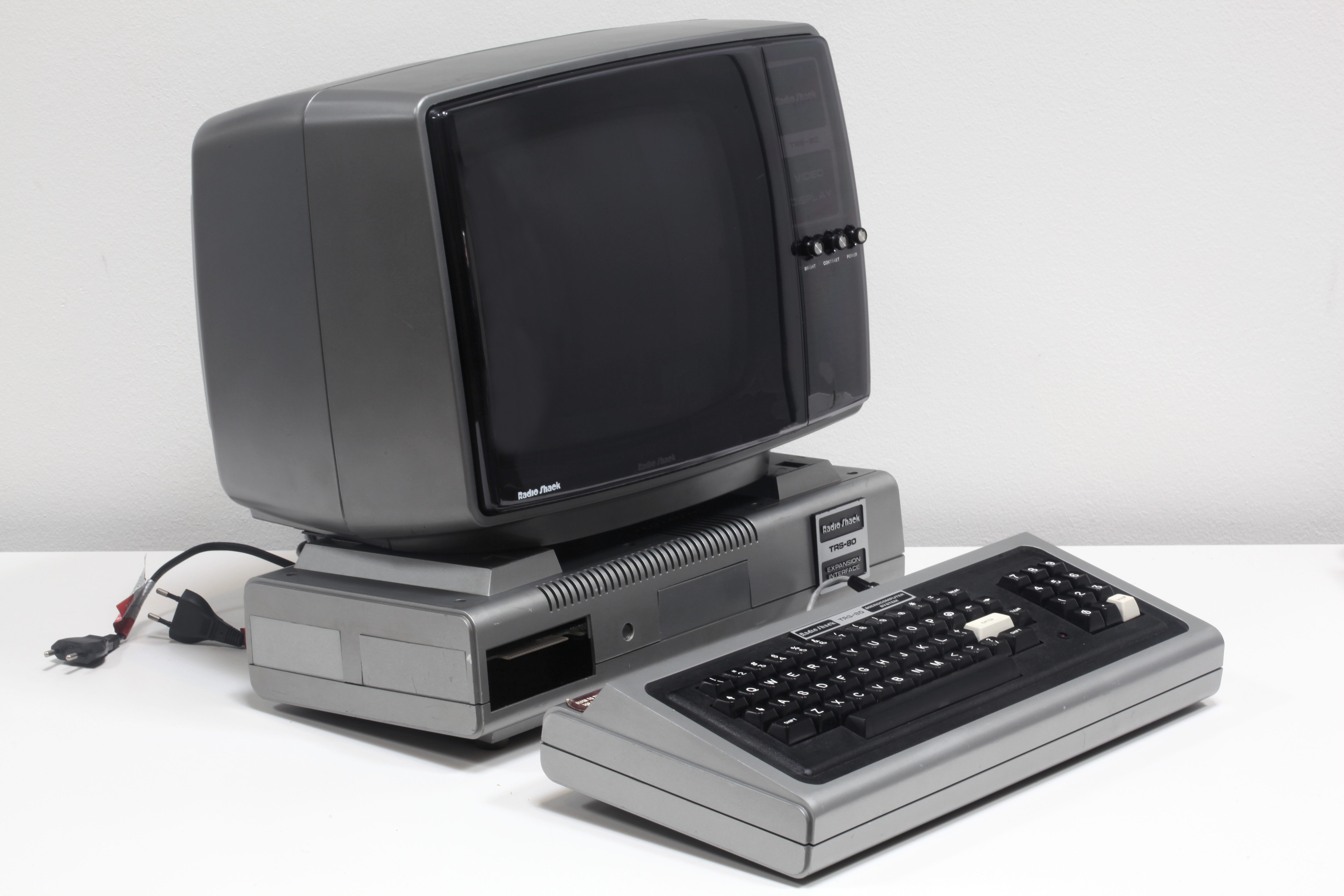 Radioshack TRS80